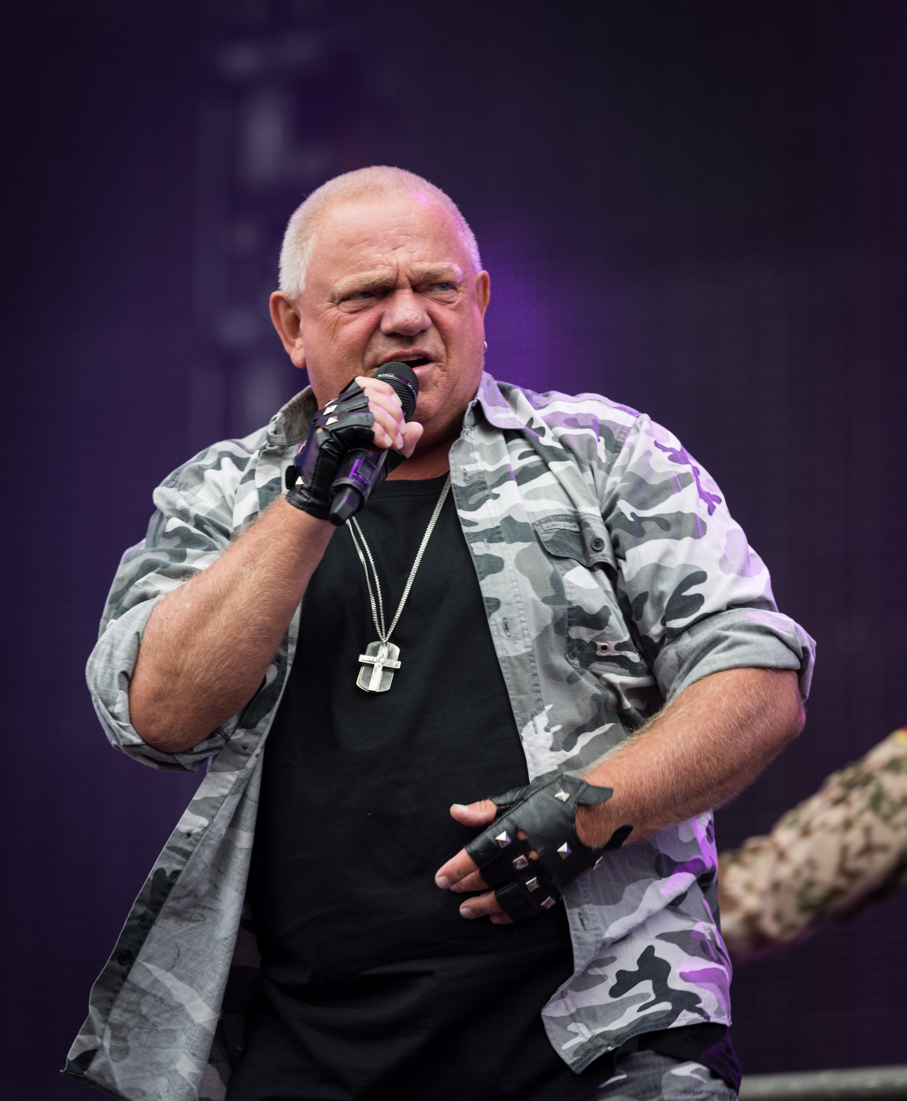 U.D.O. with Bundeswehr Musikkorps - Wacken Open Air 2015